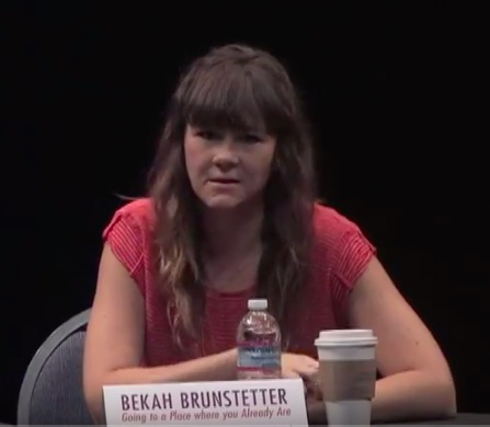 Playwright Bekah Brunstetter speaking at the "Who Do You Write For?" Playwrights Panel during the 18th Annual Pacific Playwrights Festival in 2015